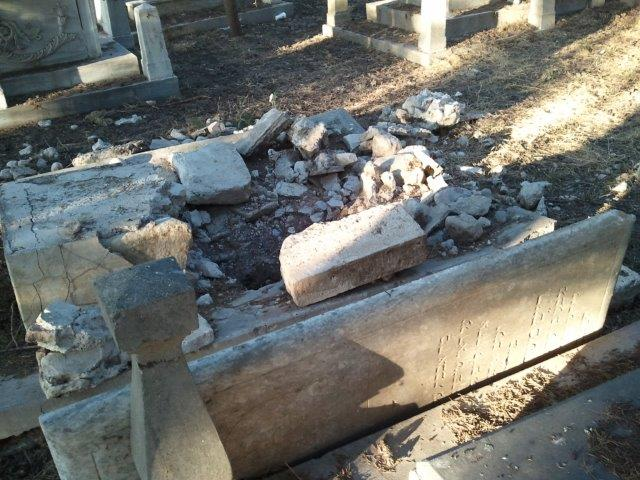 Vandalism in the Jewish Cemetery in Kos July 2013. Credit:Courtesy of Arie Darzi to memorialize the Jewish community in Greece.